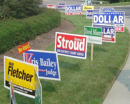 Pic of campaign signs in Apex, North Carolina